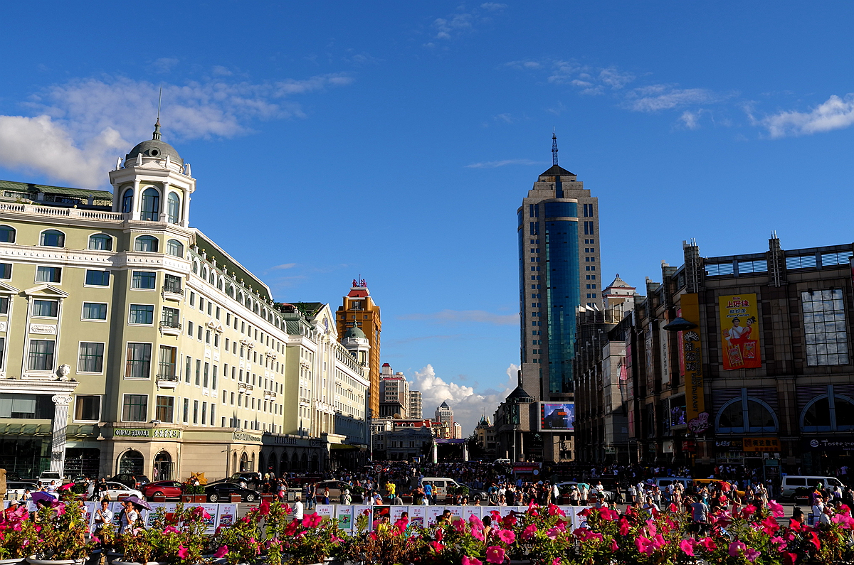 Central Street(Zhongyang Dajie) in Harbin, Heilongjiang, China